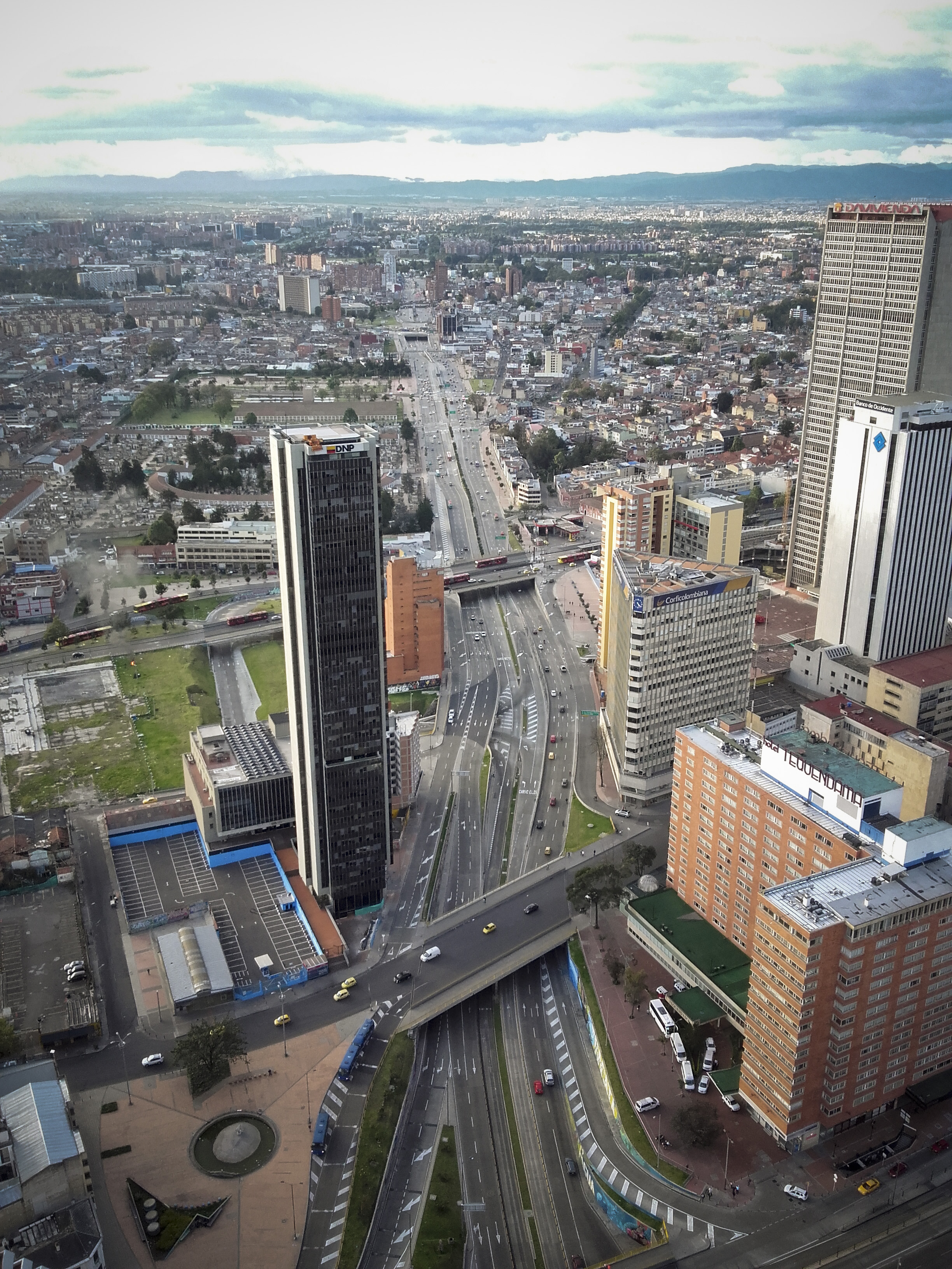 Avenida El Dorado or Calle 26 in Bogotá, Colombia. View from East to West with Colpatria Tower in front.